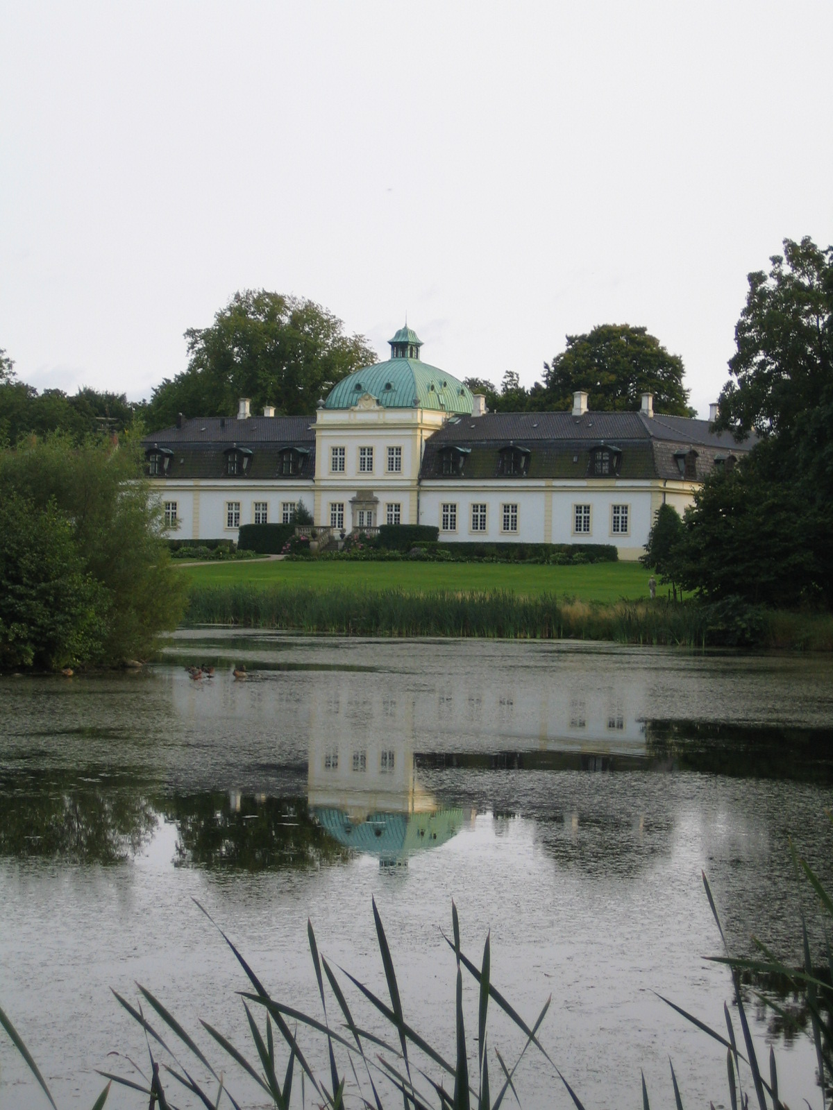 Castle Jordberga, Trelleborg Municipality, Sweden